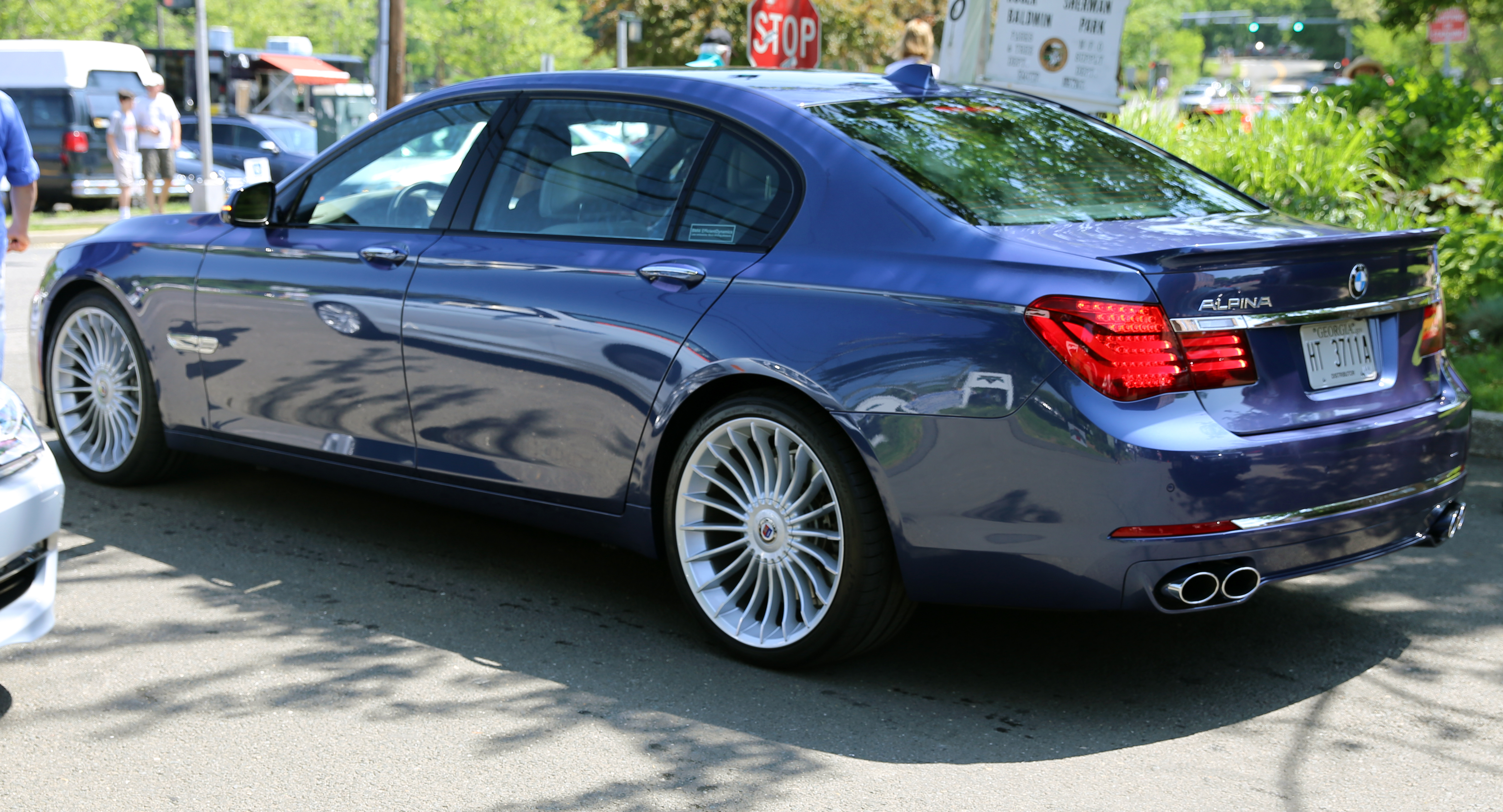 2013 Alpina B7 at the 2013 Greenwich Concours d'Elegance.